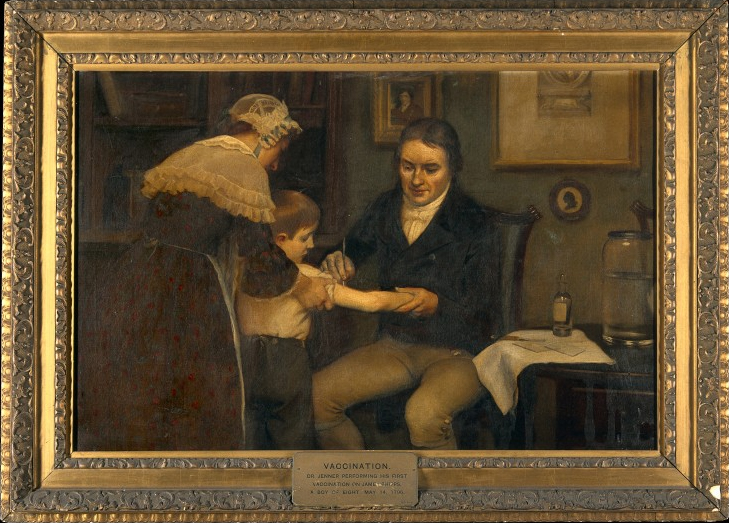 Dr Jenner performing his first vaccination on James Phipps, a boy of age 8. May 14th, 1796.